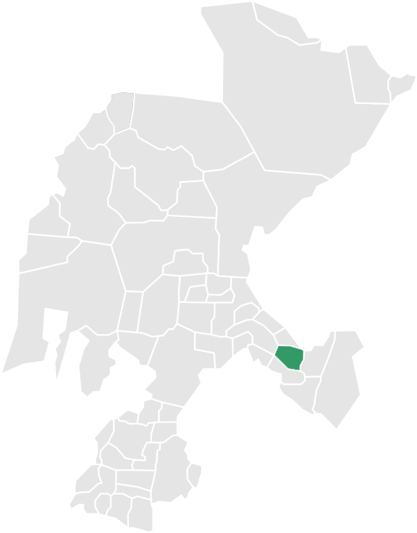 Map of the Municipality of Noria de Ángeles, Zacatecas, México.